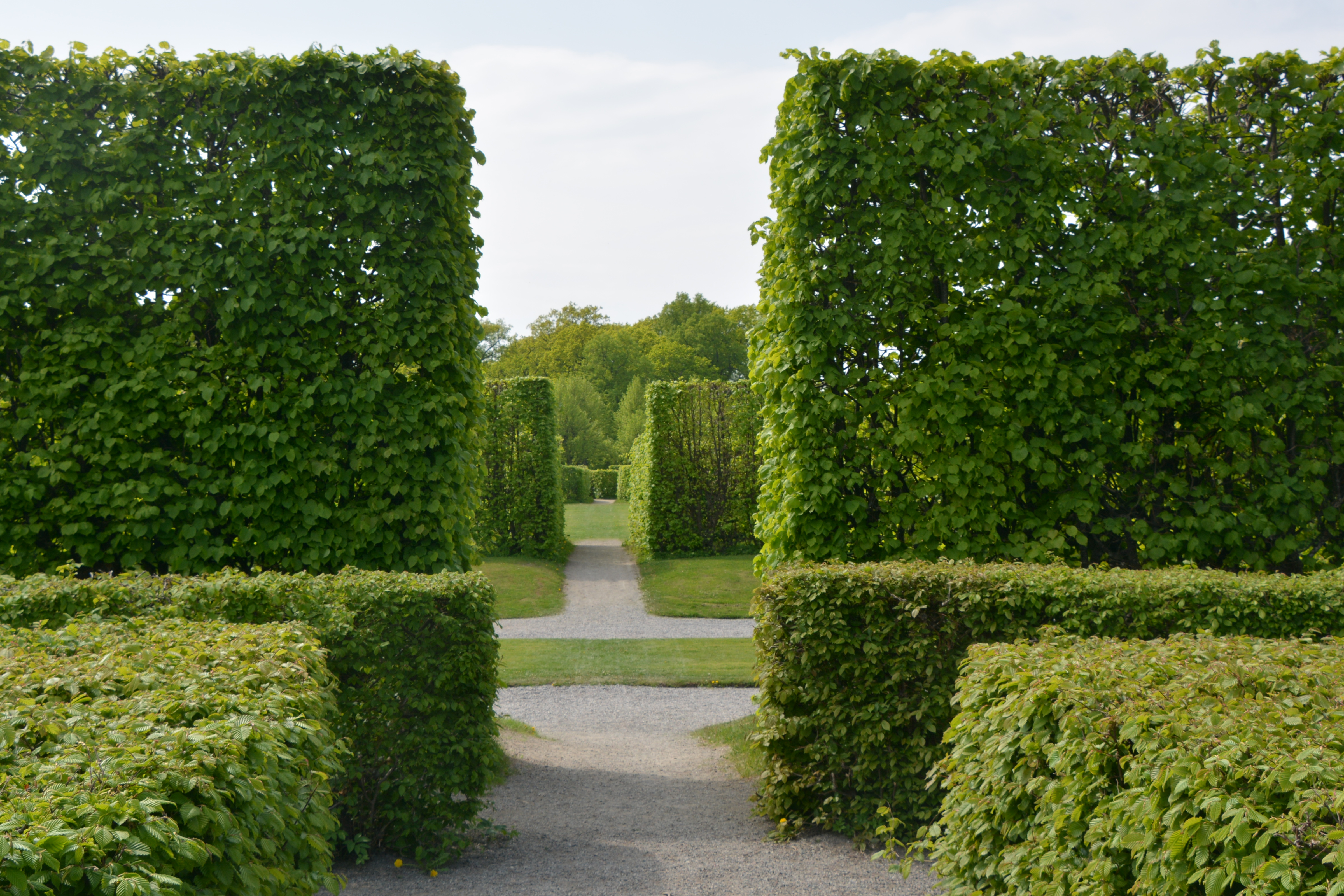 Bosque quarters, Drottningholm Castle Park